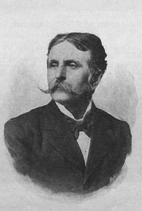 Arnold Vértesi